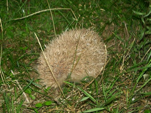 Blonde hedgehog photographed in Milton, Cambridgeshire